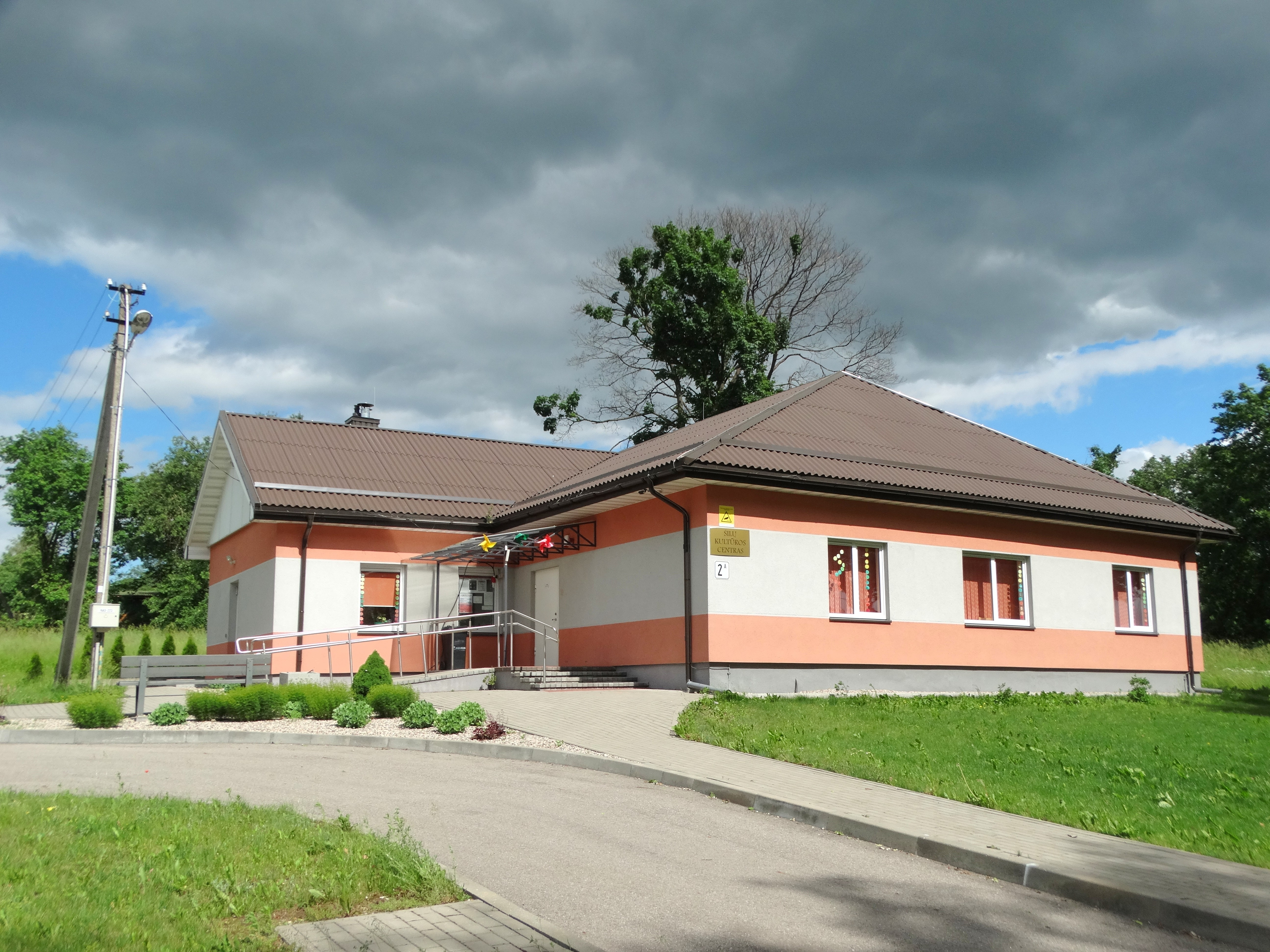 Šilai, centre of culture, Jonava district, Lithuania